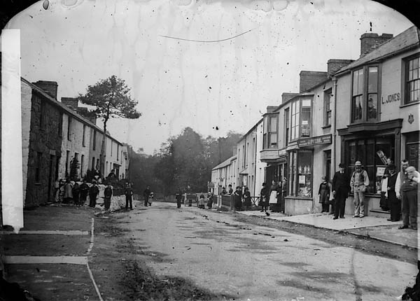 1 negative : glass, wet collodion, b&w ; 12 x 16.5 cm.